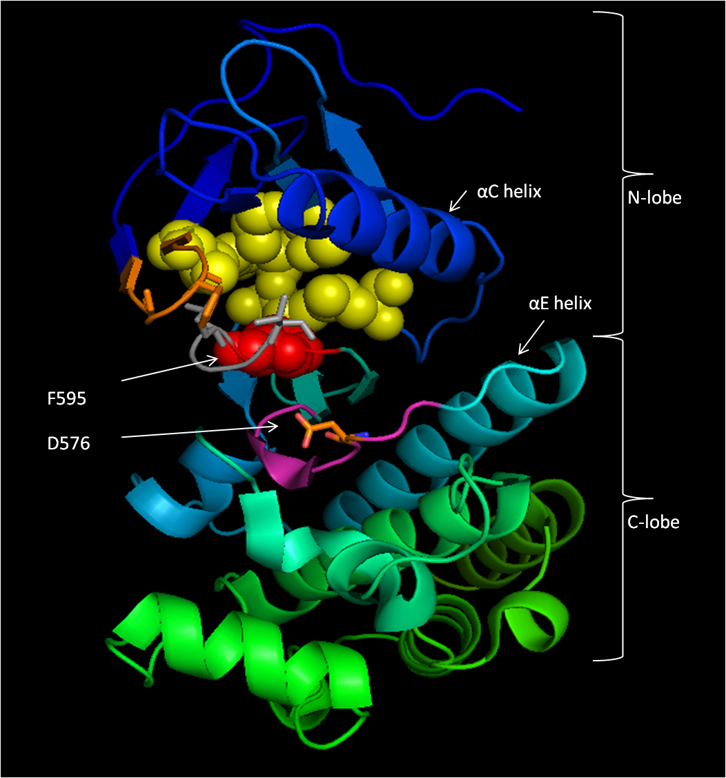 Braf inactive